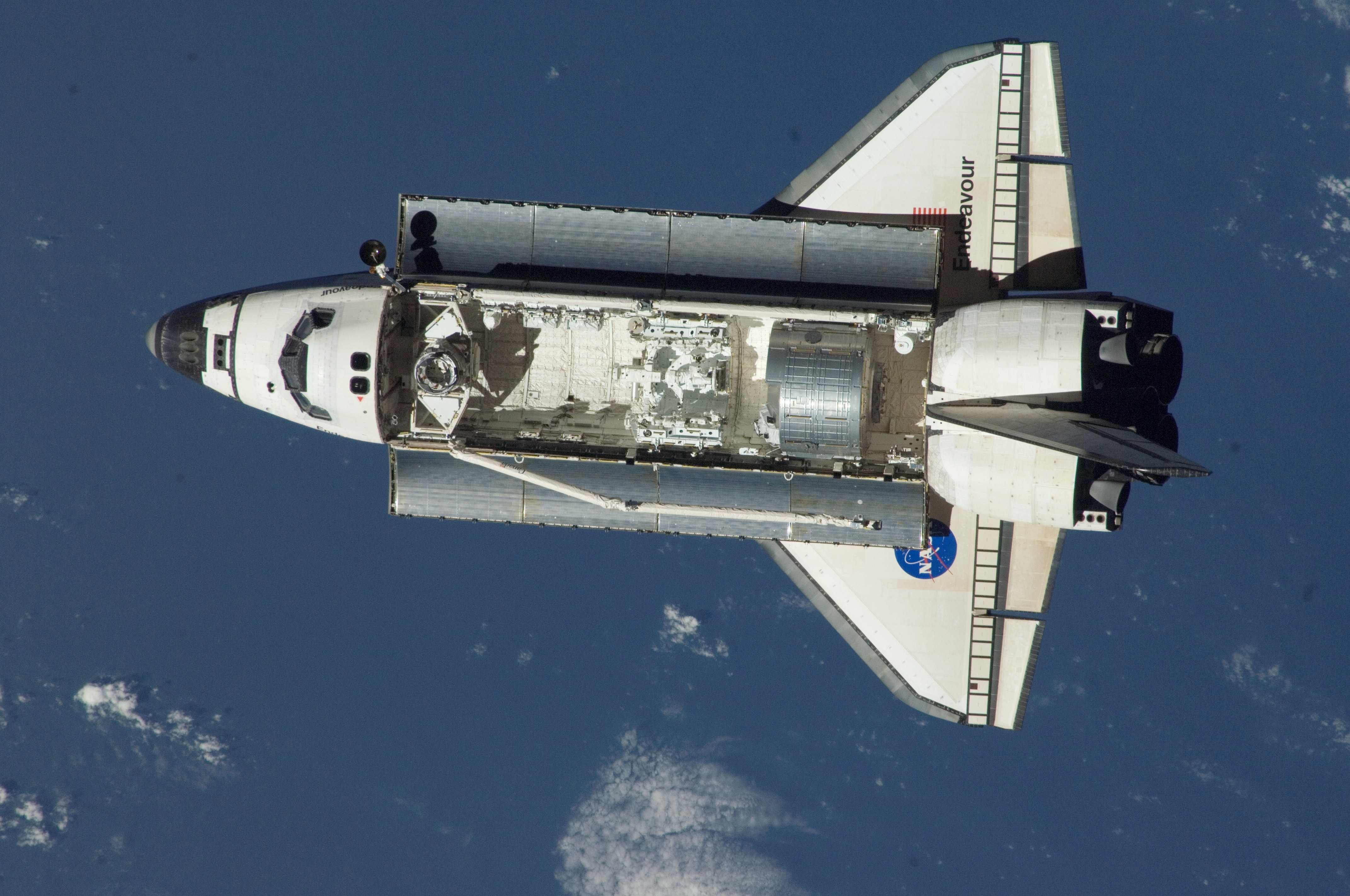 Backdropped by a blue and white Earth, Space Shuttle Endeavour approaches the International Space Station during STS-123 rendezvous and docking operations. Docking occurred at 10:49 p.m. (CDT) on March 12, 2008. The Canadian-built Dextre robotic system and the logistics module for the Japanese Kibo laboratory are visible in Endeavour's cargo bay.